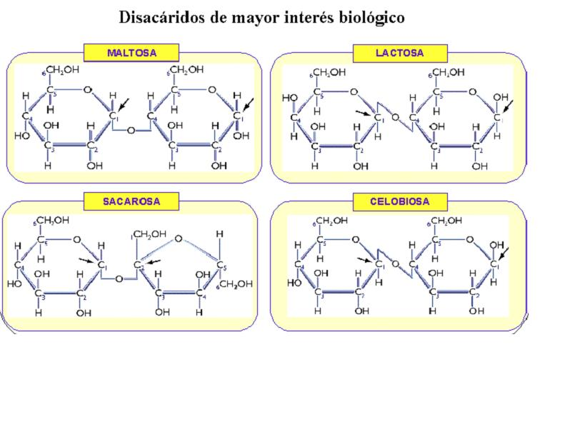 disacaridos